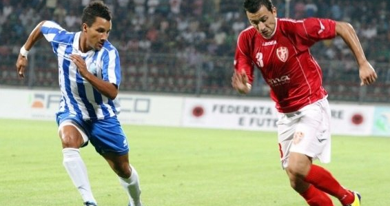 Hepple vs Skenderbeu in Super Cup Final 2011